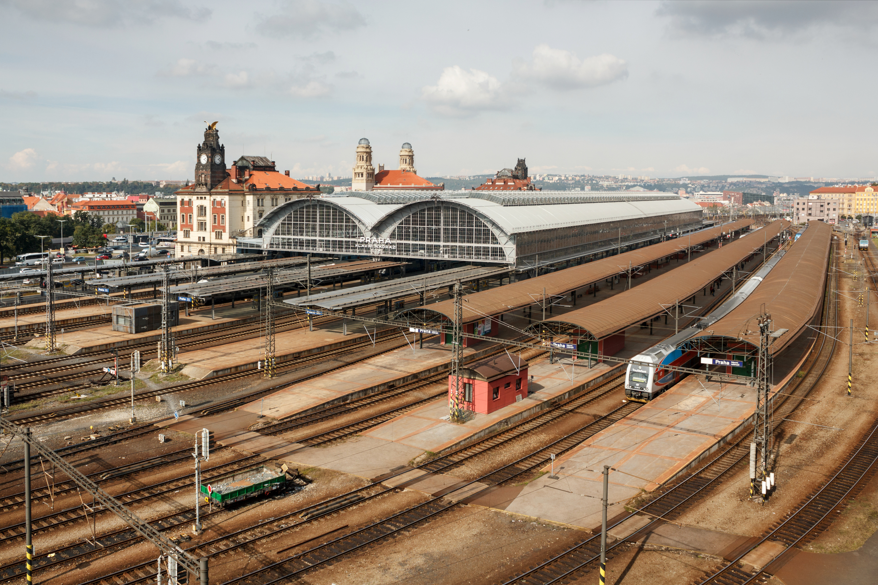 Prague main railway station from the South.